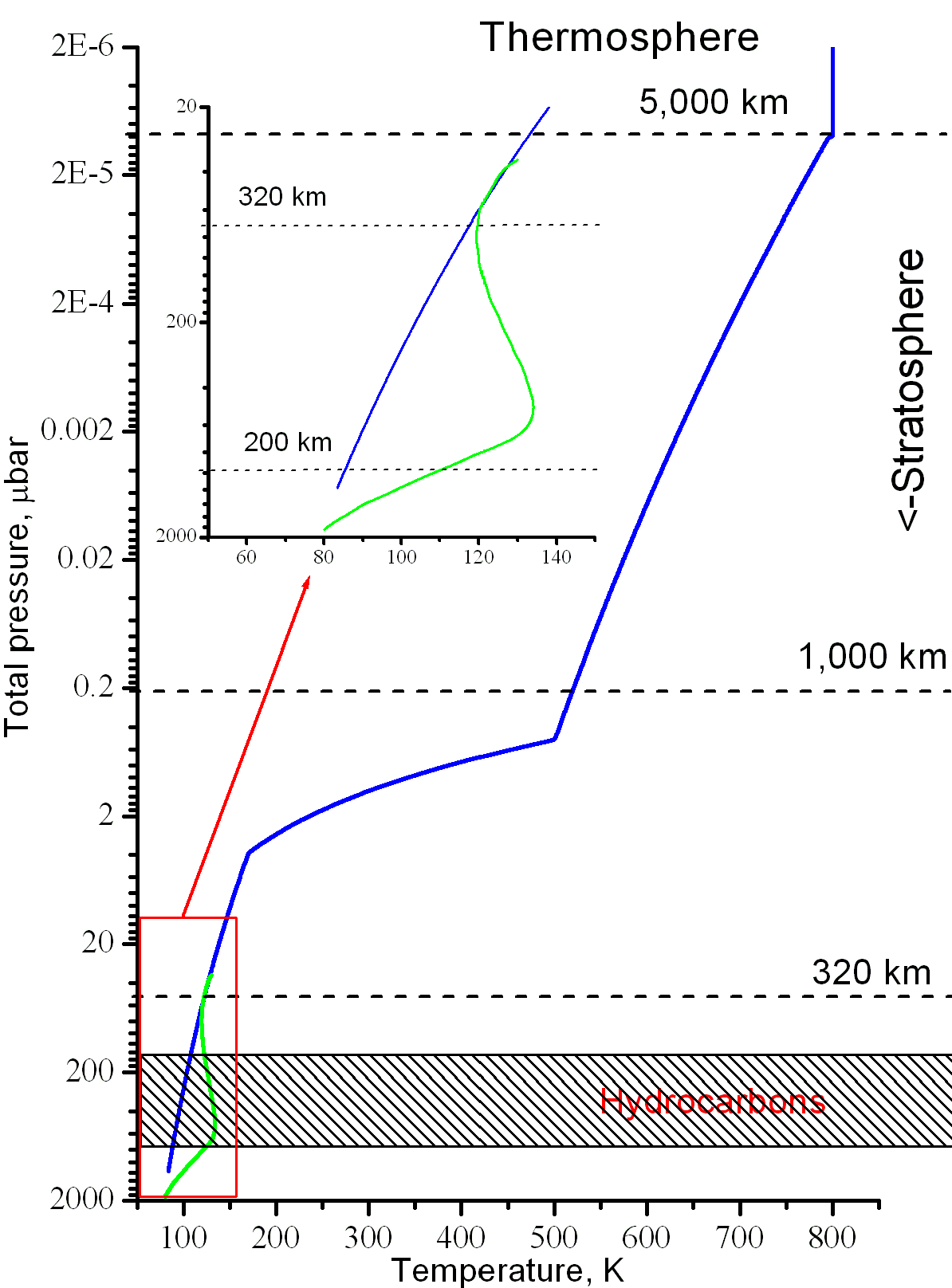 This figure shows temperature profiles in the stratosphere and thermosphere of Uranus. Approximate altitudes are also indicated. The shaded area is the layer with a high hydrocarbon abundance. The data of the blue curve are from Herbert et al.[1] The data of of the green curve are from [2] References ↑ Herbert, Floyd; Sandel, B.R.; Yelle, R.V.; et.al. (1987). "The Upper Atmosphere of Uranus: EUV Occultations Observed by Voyager 2" (PDF). J. of Geophys. Res. 92: 15,093-15,109. (Table 1) ↑ Bishop, J.; Atreya, S.K.; Herbert, F.; and Romani, P. (1990). "Reanalysis of Voyager 2 UVS Occultations at Uranus: Hydrocarbon Mixing Ratios in the Equatorial Stratosphere" (PDF). Icarus 88: 448–463. (Table 1)